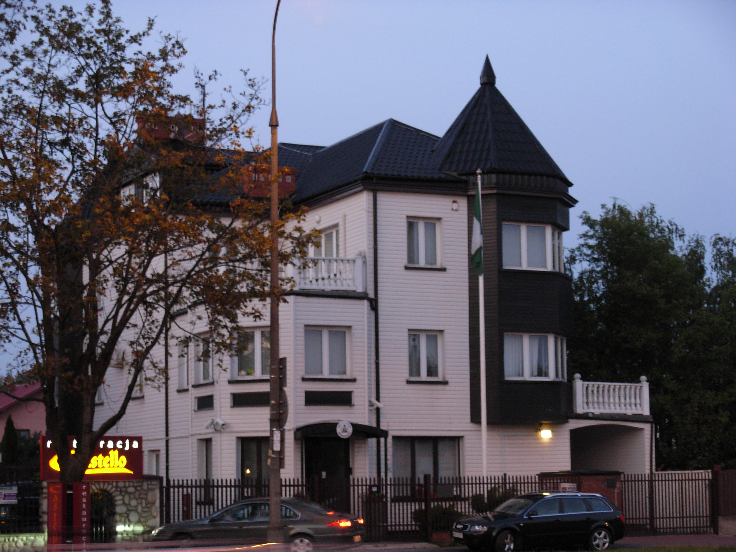 Nigerian Embassy in Warsaw